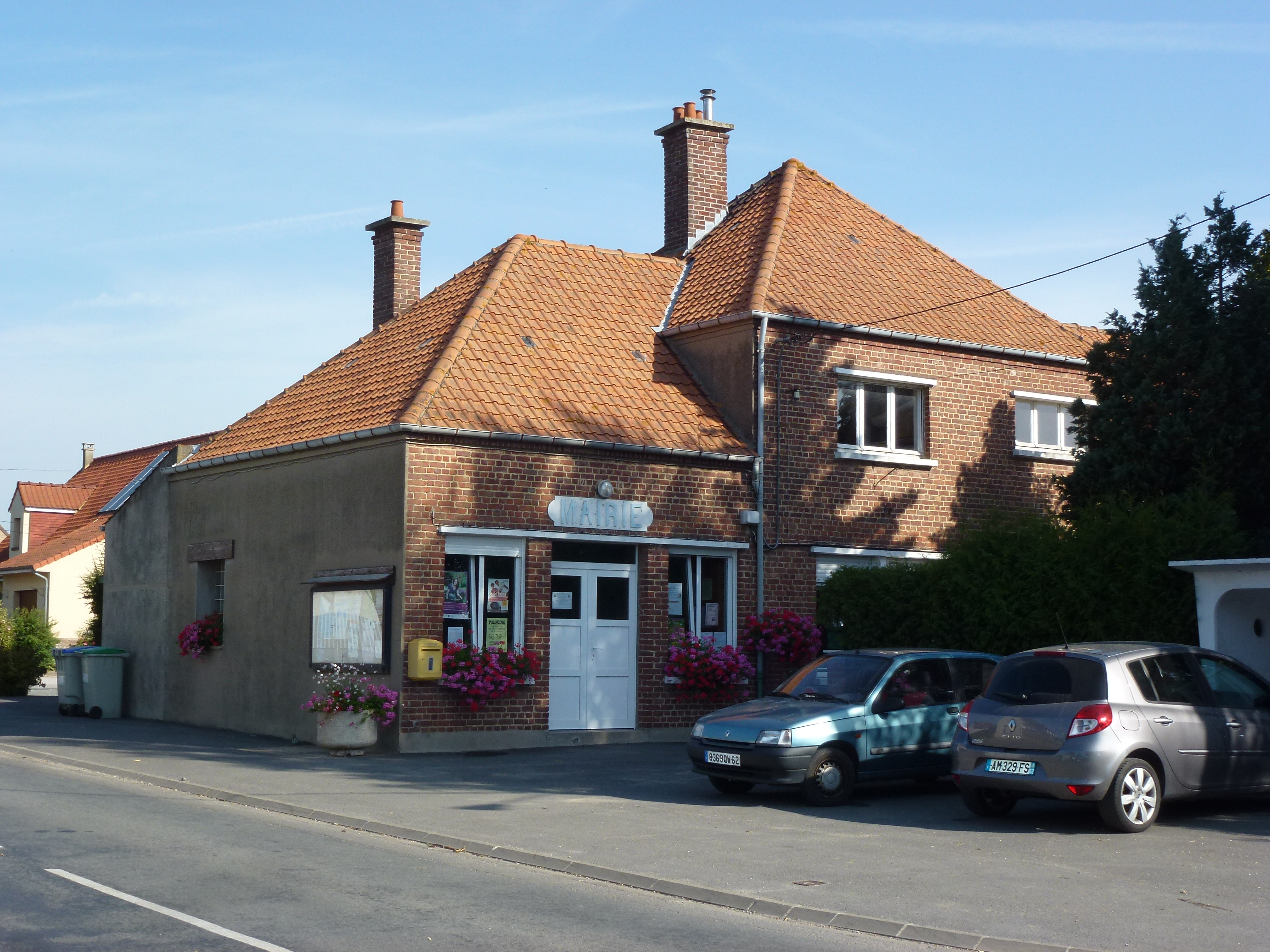 Polincove (Pas-de-Calais, Fr) mairie